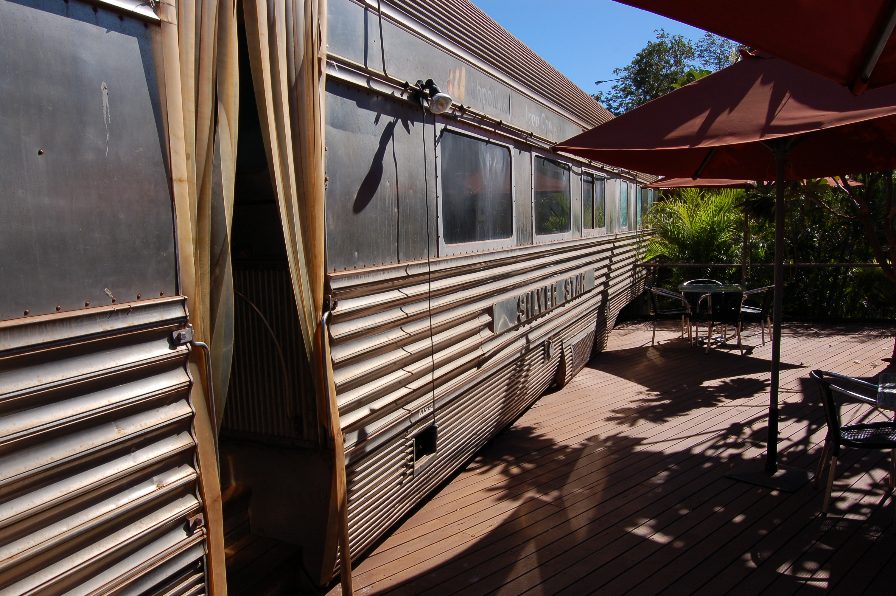 An exterior view of the Silver Star Cafe, Port Hedland, Western Australia, with its alfresco deck at right.